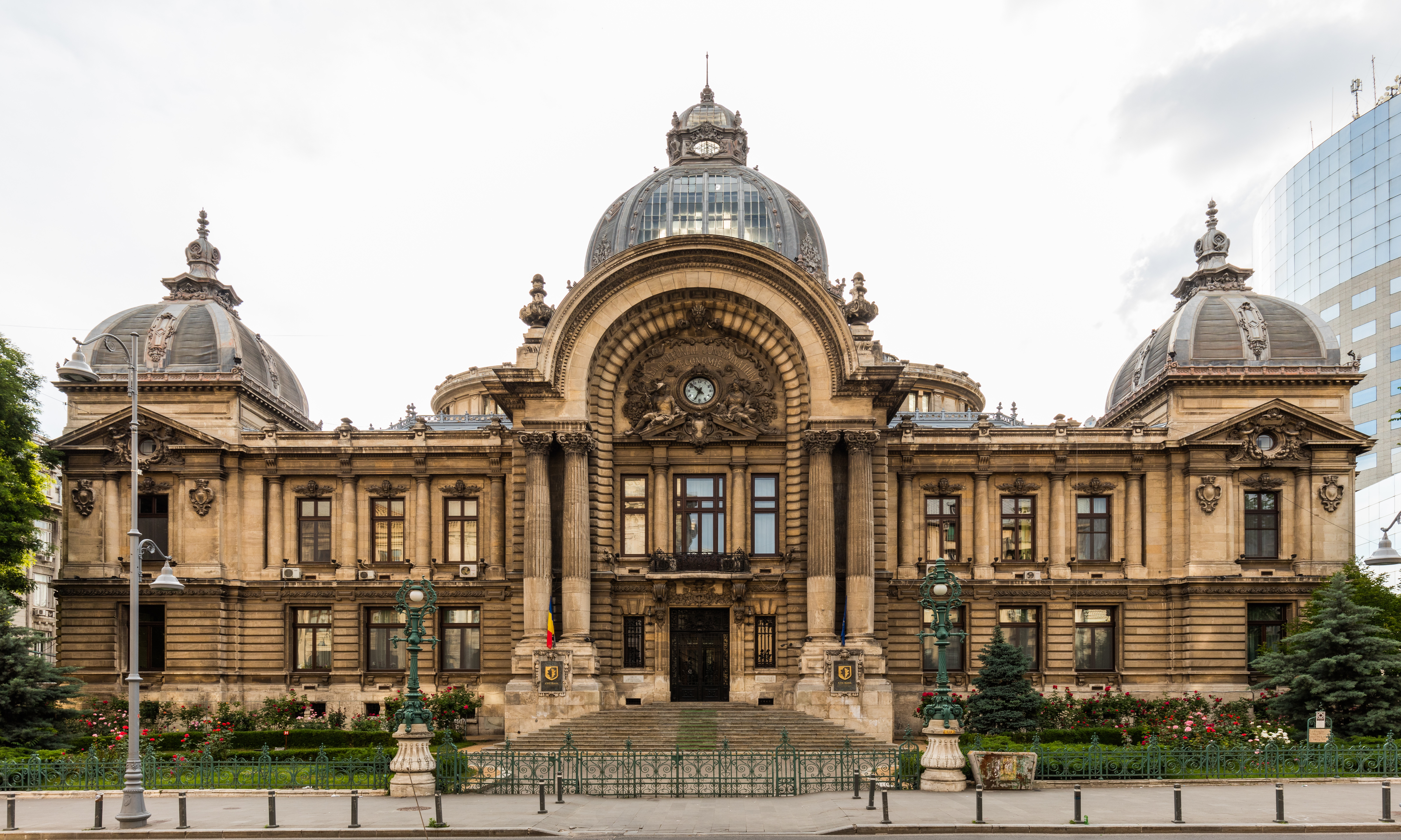 CEC Palace, Bucharest, Romania